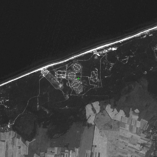 S-200 (SA-5 Gammon) battalion locations.